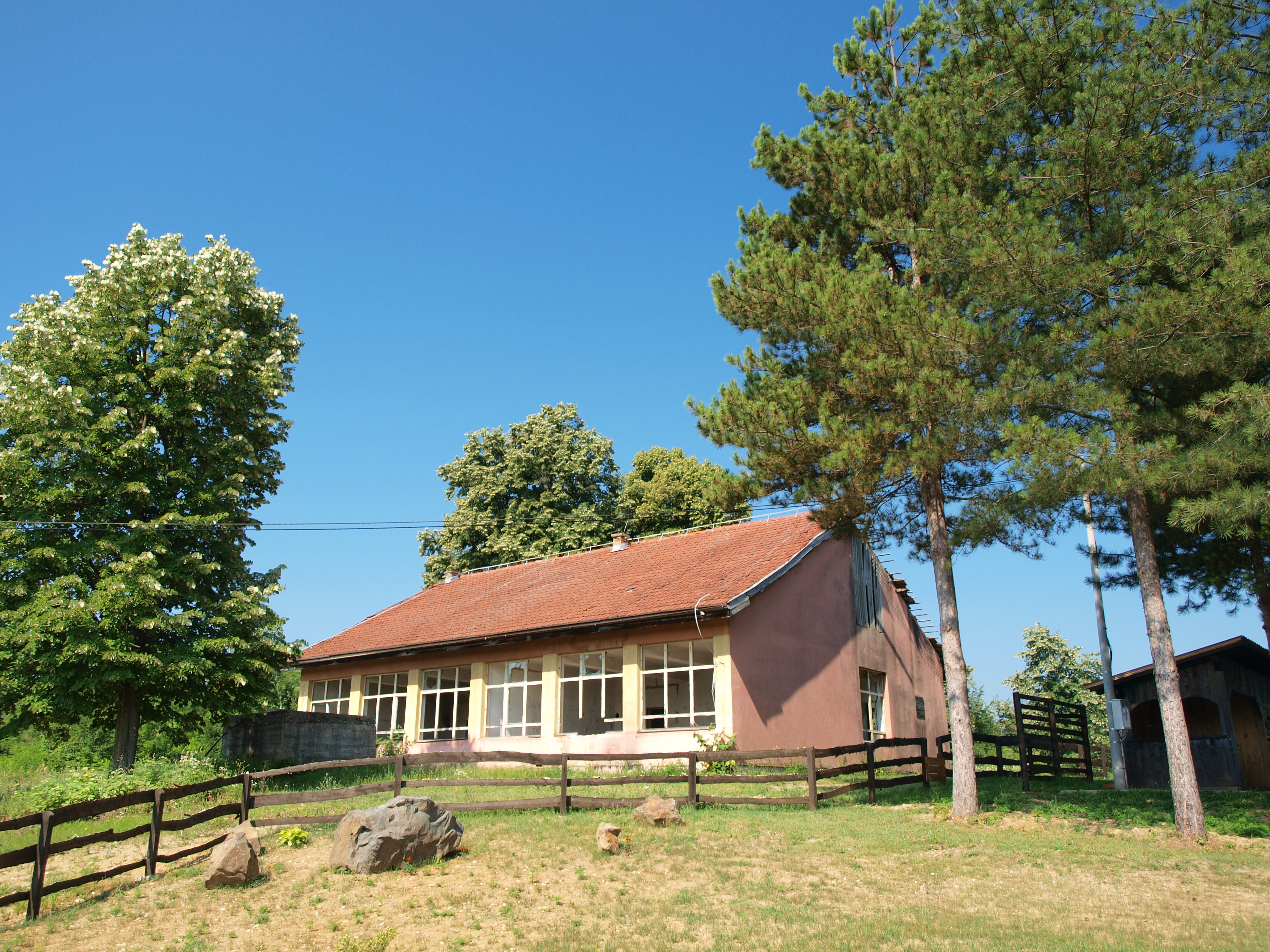 Abandoned primary school in village Brekinja, near Kozarska Dubica, Bosnia.